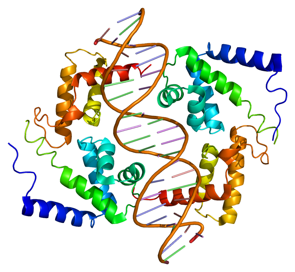 Structure of the TCF1 protein. Based on PyMOL rendering of PDB 1ic8.